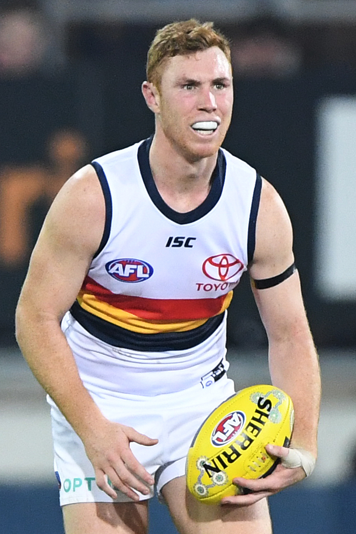 Tom Lynch of Adelaide during the 2019 AFL round 11 match between Melbourne and Adelaide at TIO Stadium on Saturday, 1 June 2019 in Darwin, Northern Territory.